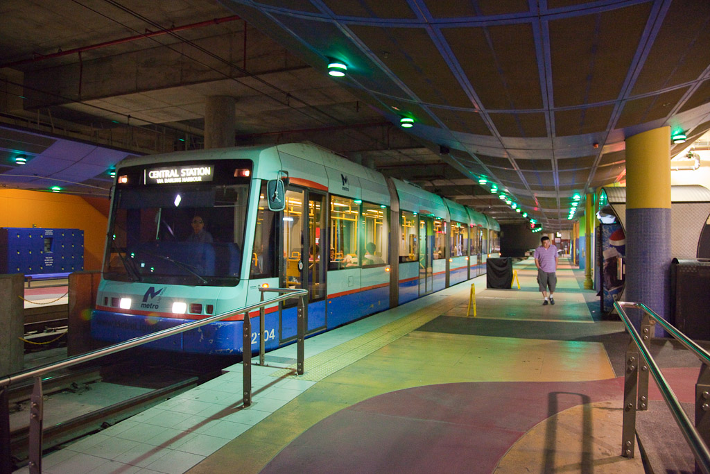 Sydney Light Rail Star City Station